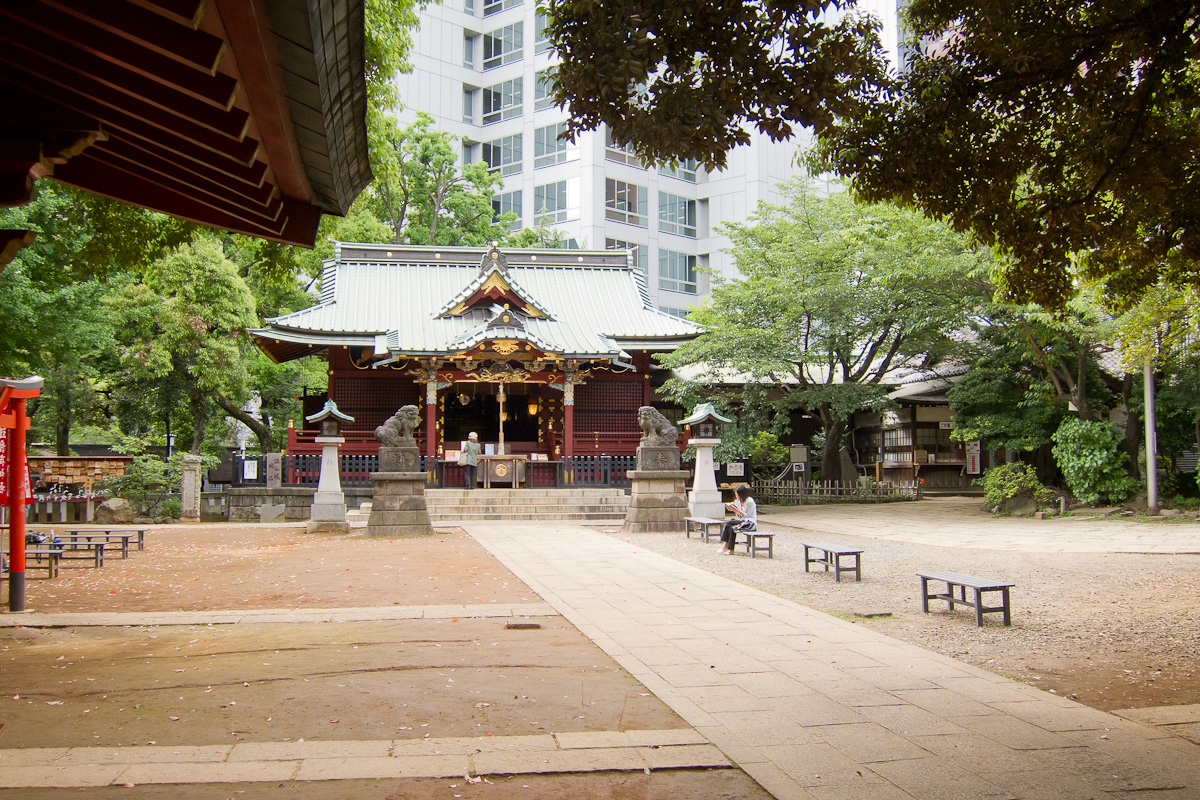 Konno-Hachiman Shrine in Shibuya, Tokyo.